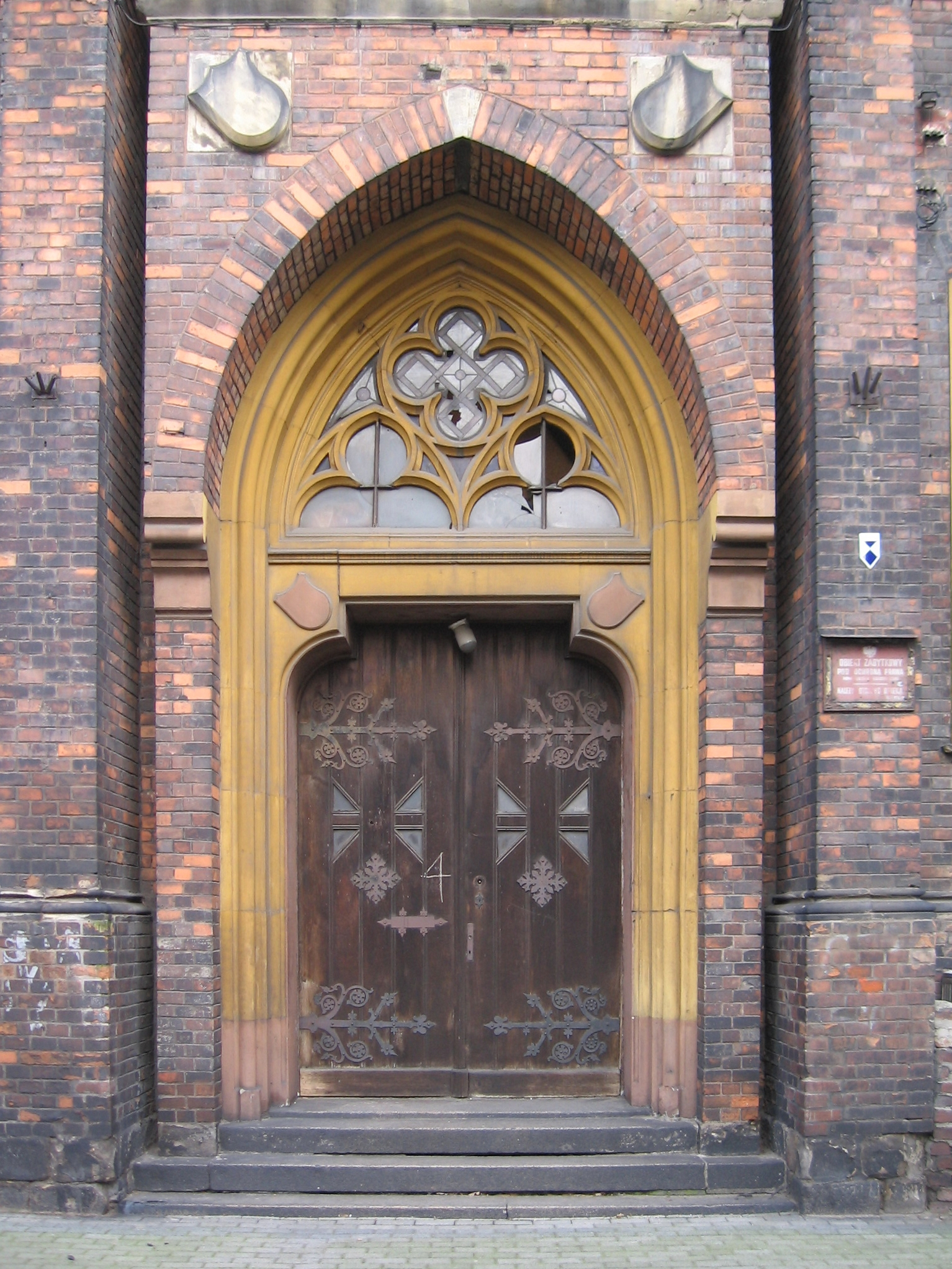 The original main portal of the building of the musical school in Bytom, Moniuszki 15 street, Poland, project by Paul Jackisch, the culture heritage monument of Silesian Voivodeship.